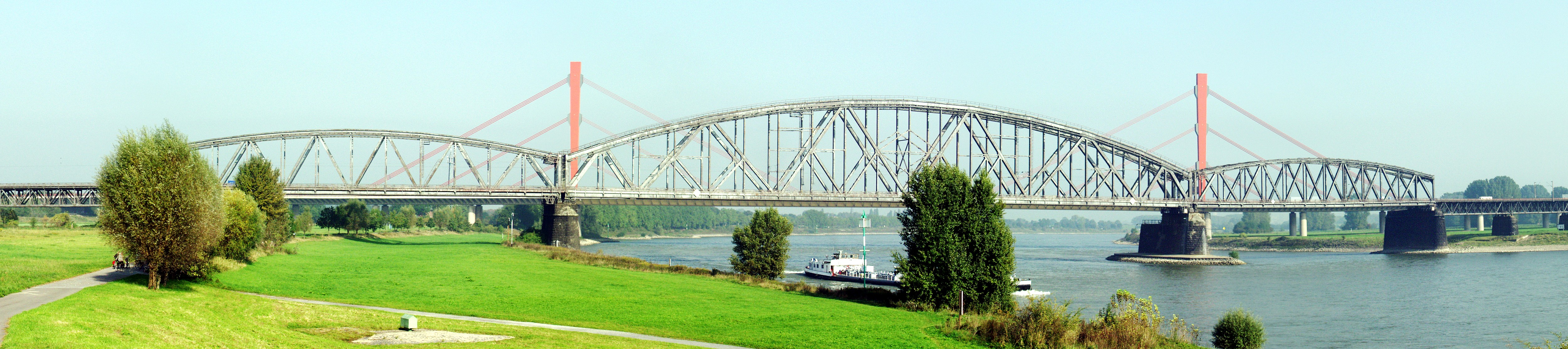 A railway bridge ("Haus-Knipp-Brücke") over the river Rhine in Duisburg, Germany